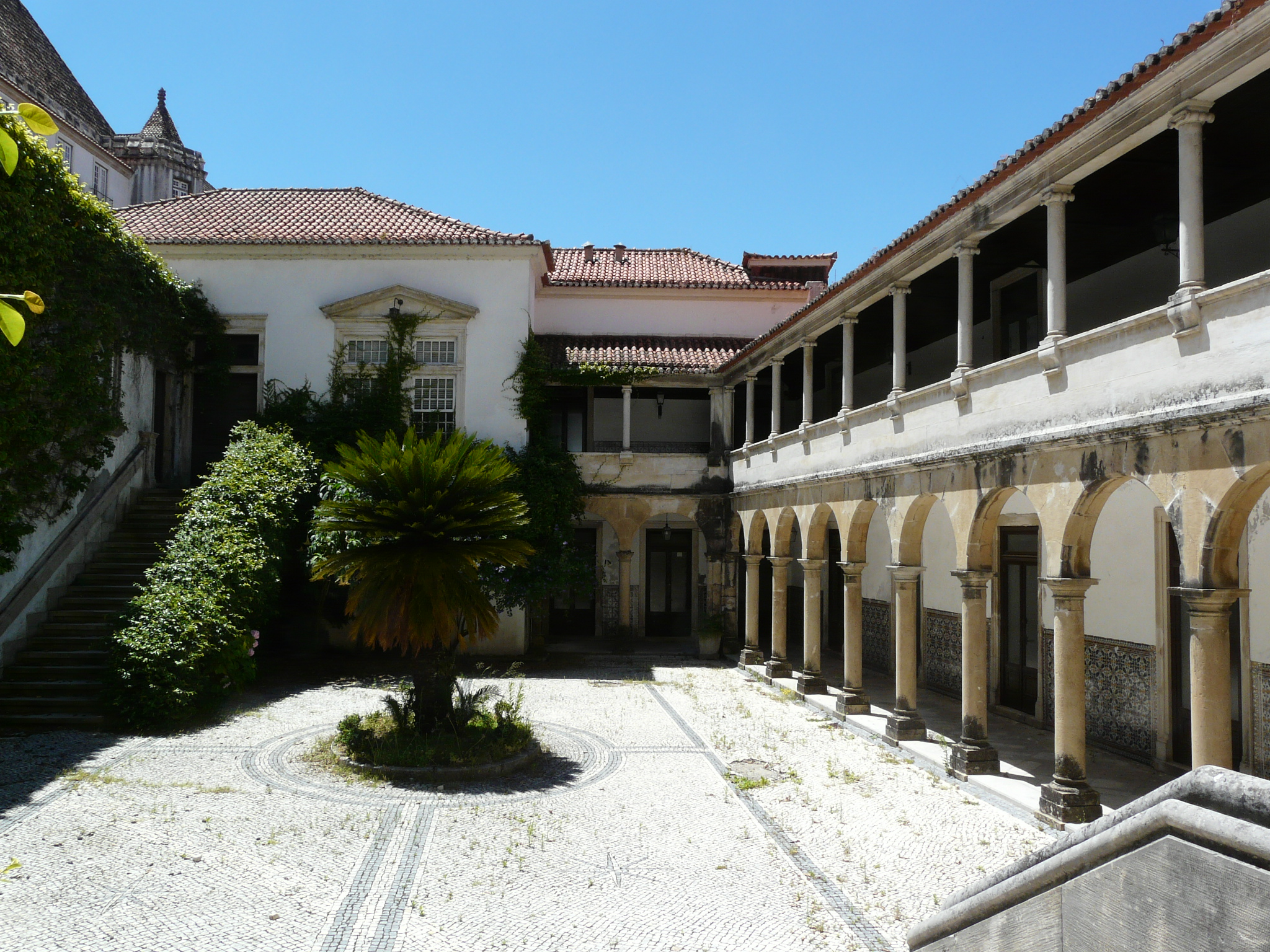 Courtyard in Coimbra